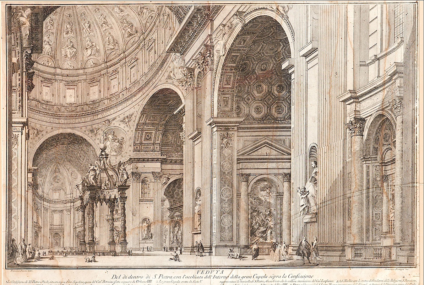 Veduta. S. Pietro in Roma, etching by Domenico Montagu. Dim. : 45 x 67 cm.